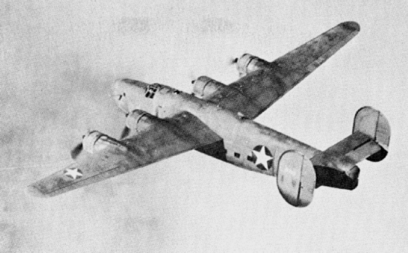 A U.S. Army Air Force Consolidated C-87 Liberator Express in flight, in 1943.